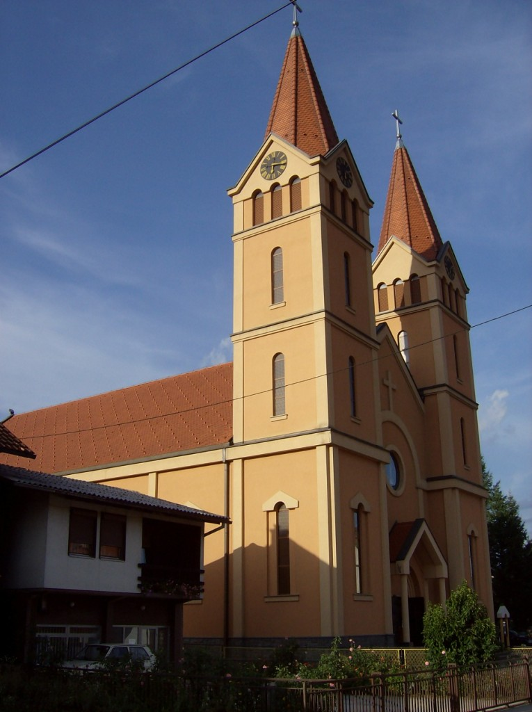 Žepče